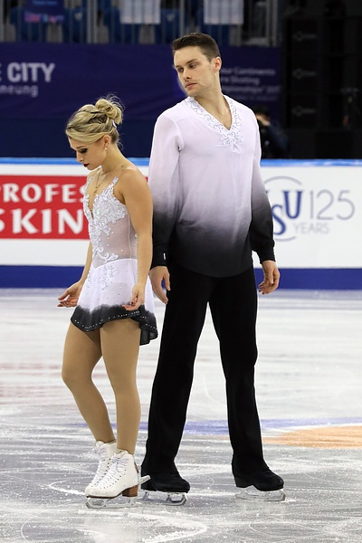 Kirsten Moore-Towers and Michael Marinaro at the 2017 Four Continents Figure Skating Championships.